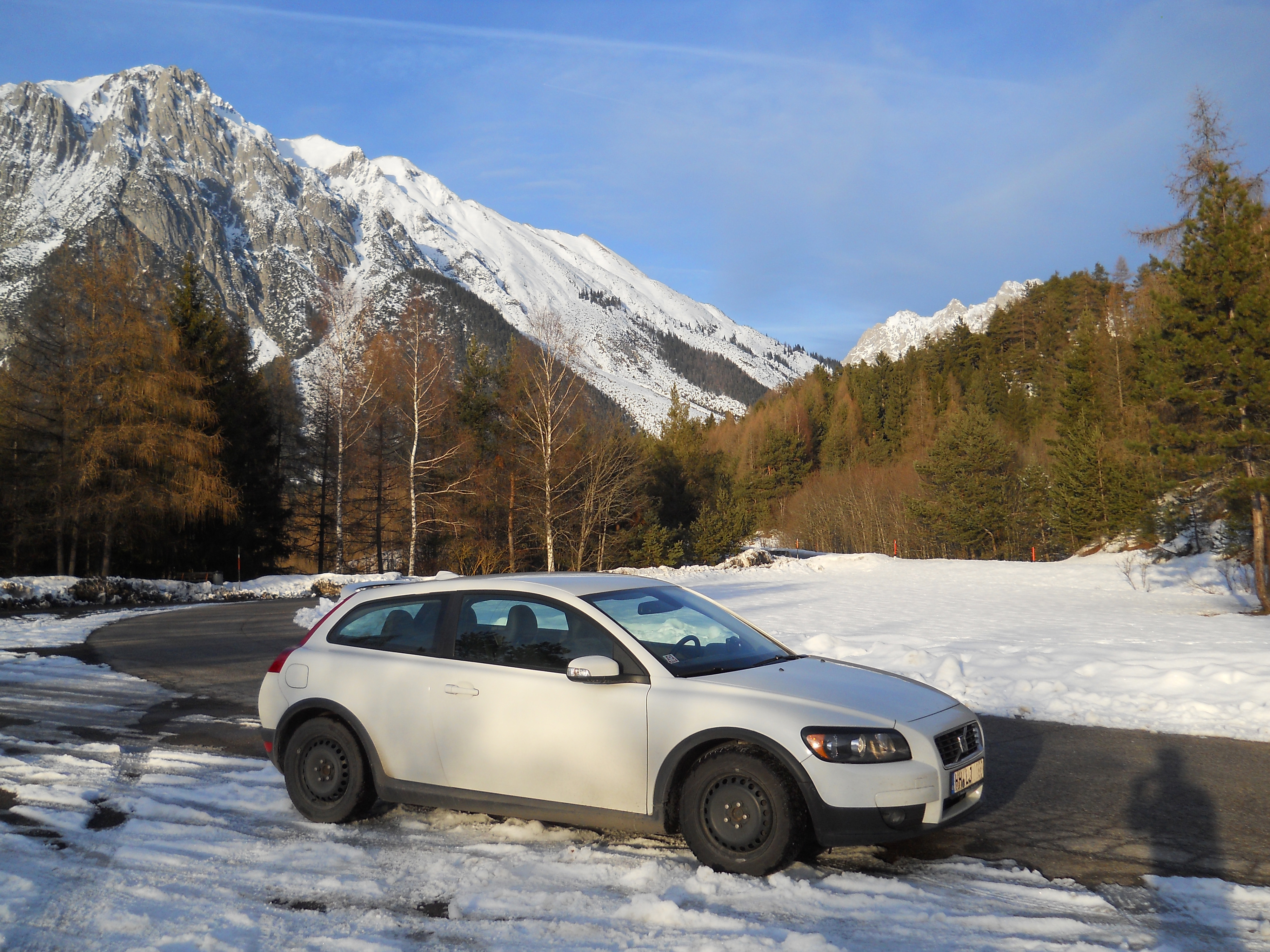 A 2008 Volvo C30 on the Fern Pass